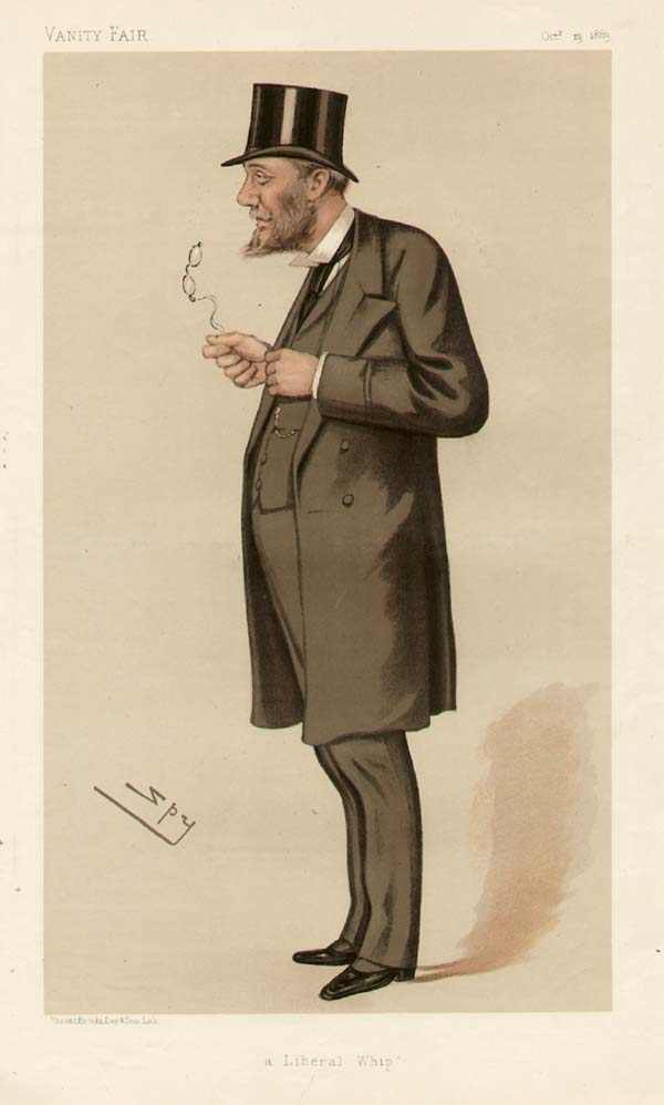 Caricature of Mr CC Cotes MP. Caption read "a Liberal Whip".